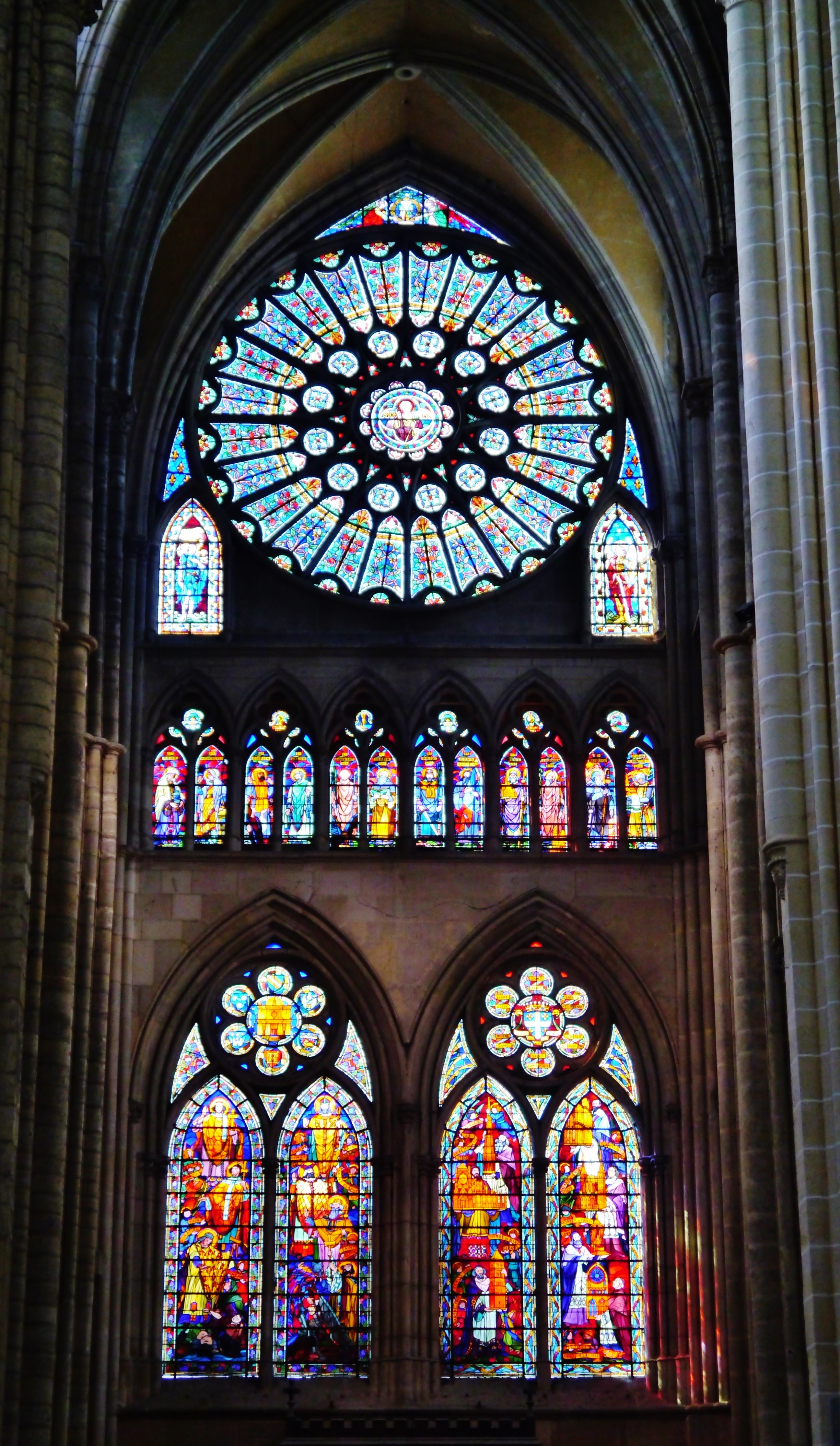 Northern Transept of the Cathedral of St. Stephen, Châlons-en-Champagne, Département of Marne, Region of Grand East (former Champagne-Ardenne), France